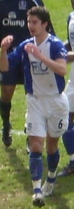 Football (soccer) defender Liam Ridgewell of Birmingham City F.C. during the Premier League match against Everton F.C.